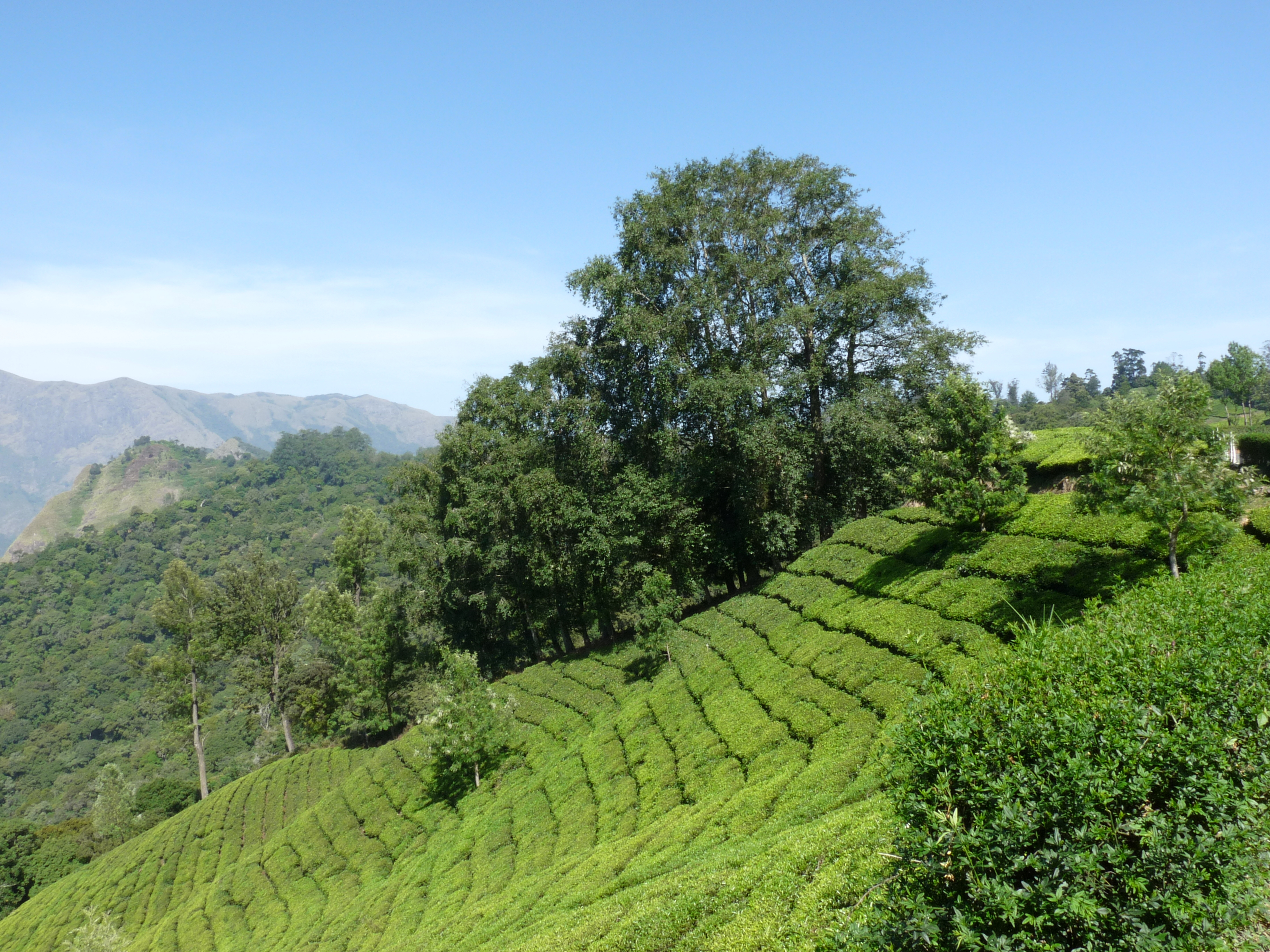 View of tea plantations in Munnar.